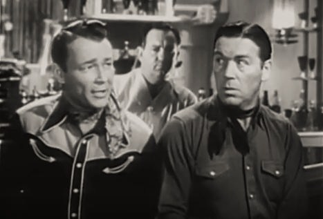 Roy Rogers (left) and William Haade in The Yellow Rose of Texas - cropped screenshot